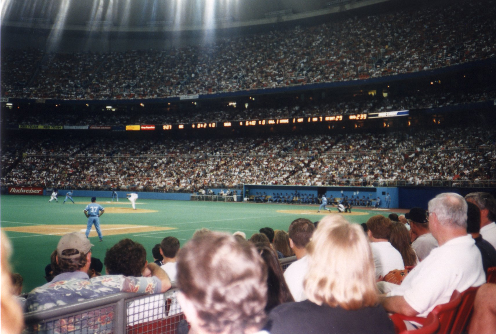 Inside the Seattle Kingdome during a 1996 Major League Baseball game between the Seattle Mariners and the Kansas City Royals.